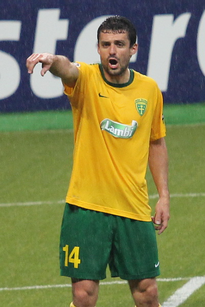 Tomáš Oravec